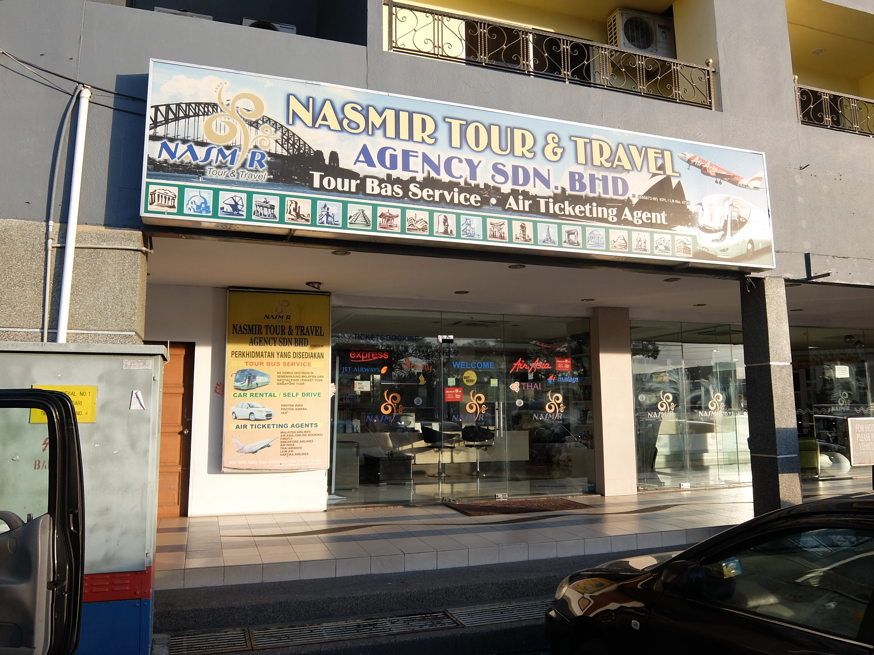 Nasmir Tour and Travel Agency, Taman Pelangi, Bukit Mertajam, Central Seberang Perai, Penang, Malaysia